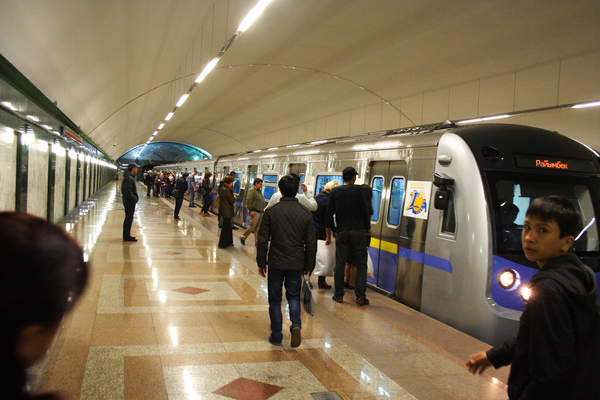 Almaty Metro